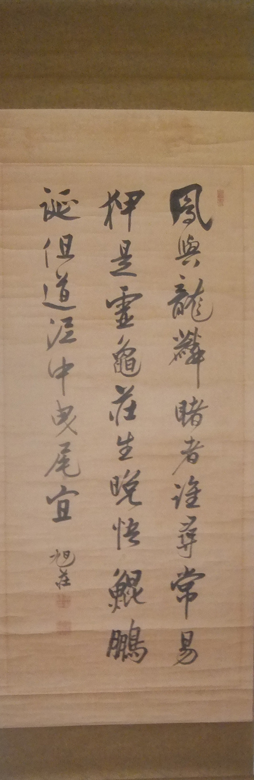 Chinese style verse written and signed by the Japanese Neo-Confucianist, poet and educator Hirose Gyokusō (1807-1863). (own collection)